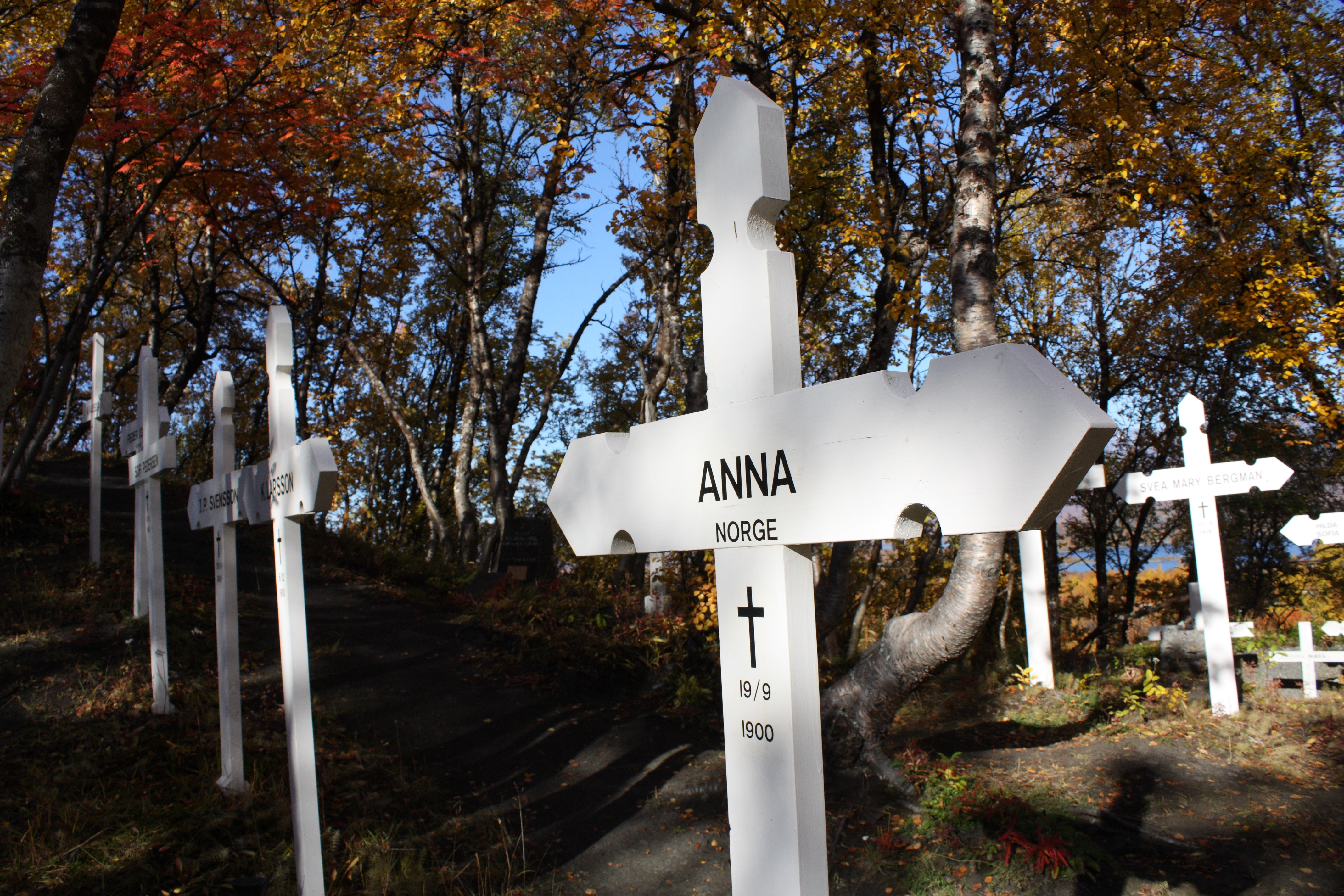 Grave cross in the Tornehamn graveyard in Kiruna Municipality, northern Sweden.